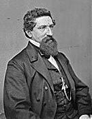 Myer Strouse, US Representative from Pennsylvania